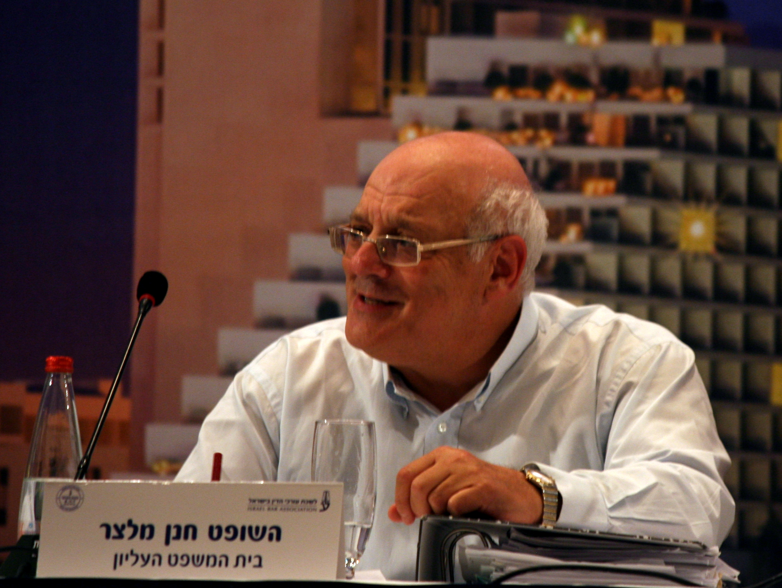 Israel Supreme Court Justice Hanan Meltzer